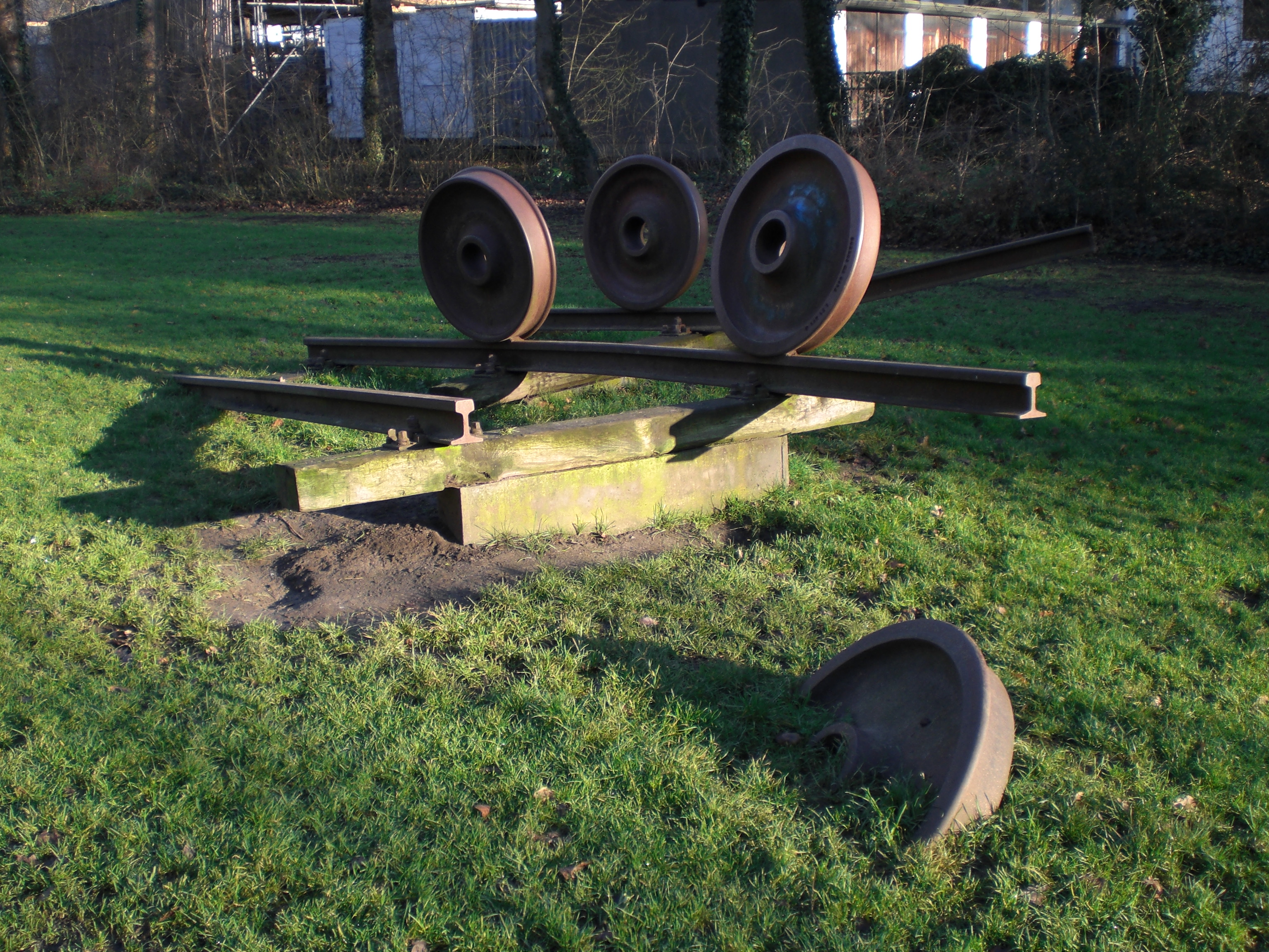 memorial for former Jan Reiners narrow gauge railway in Bremen, Germany, Dec 2008